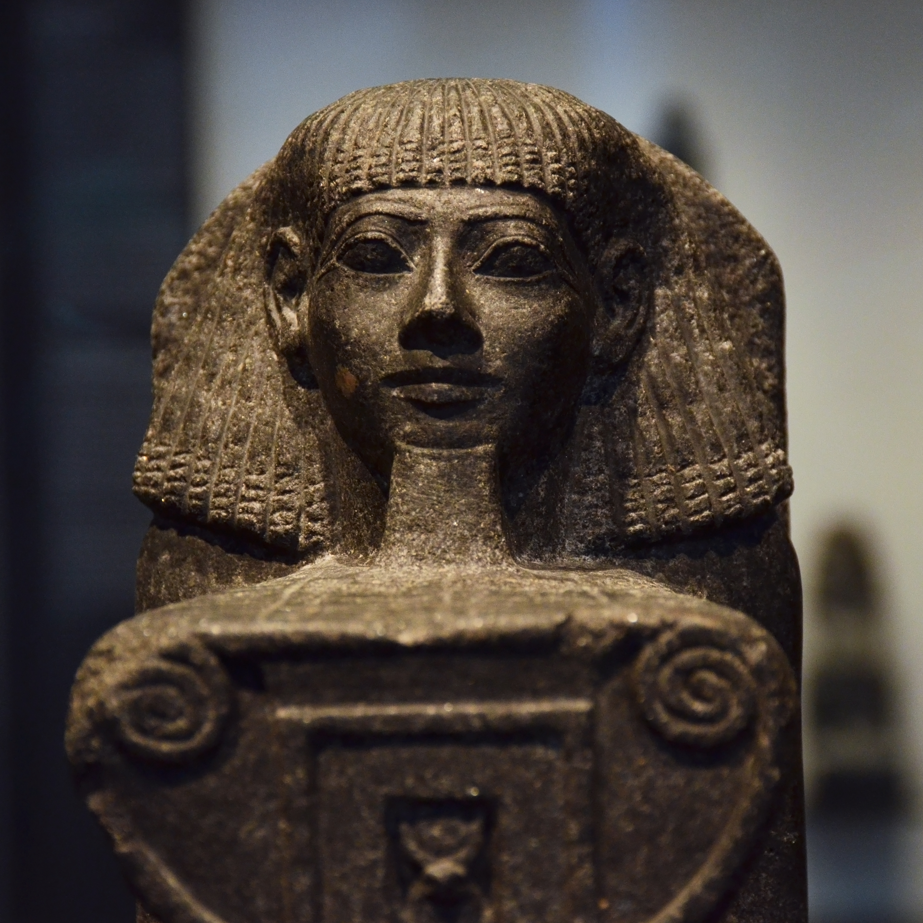 Kneeling Statue of Senenmut Holding Hathor Symbol (detail ). 18th Dynasty, c. 1470 B.C., granit. Staatliches Museum Ägyptischer Kunst, in München.